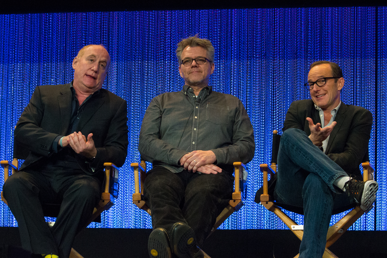 Jeph Loeb, Jeffrey Bell and Clark Gregg